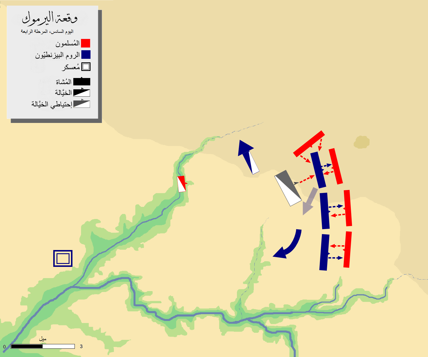 Battle_of_Yarmouk-day-6_phase-4